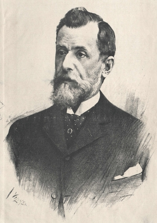 Ernst von Plener (1841-1923), Austrian statesma